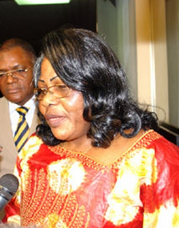 Picture of Dr Helene Mambu, WHO Representative to Cameroon, at a press availability at the Prime Minister's office.